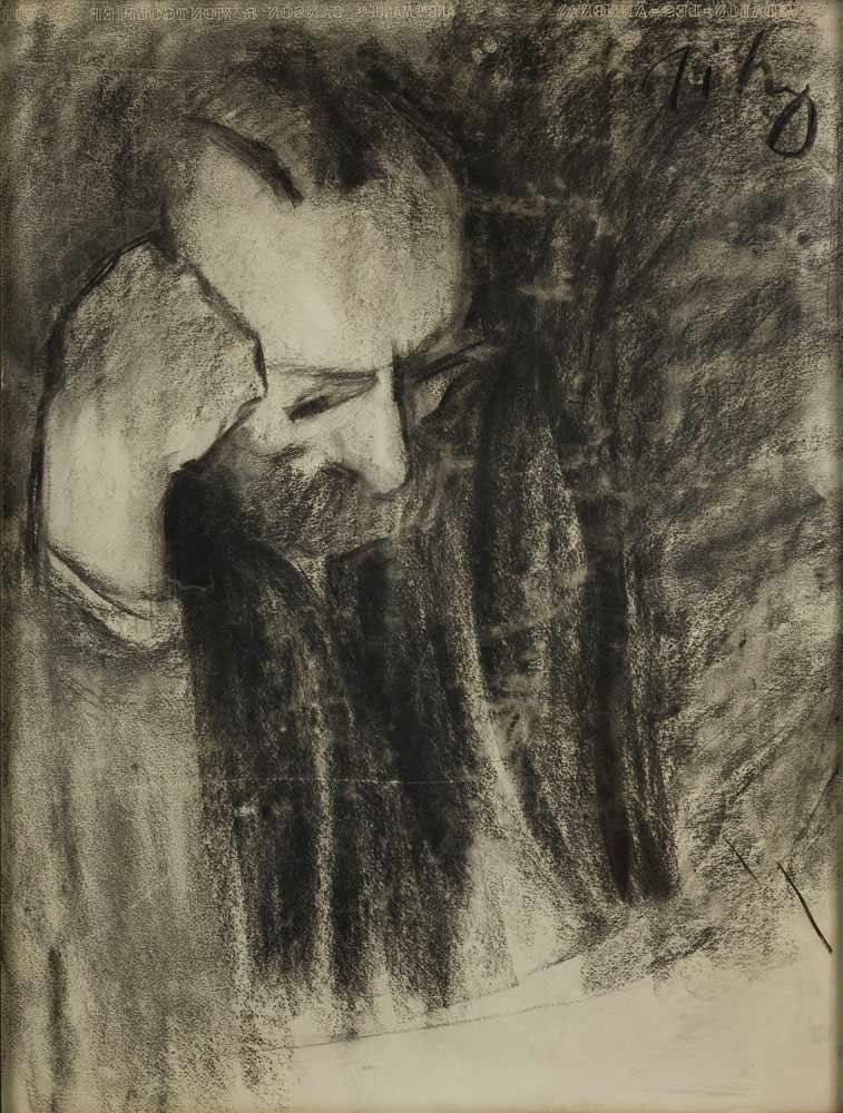 Portrait of Felix Jasieński - Manggha